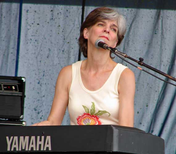 Marcia Ball at the New Orleans Jazz & Heritage festival